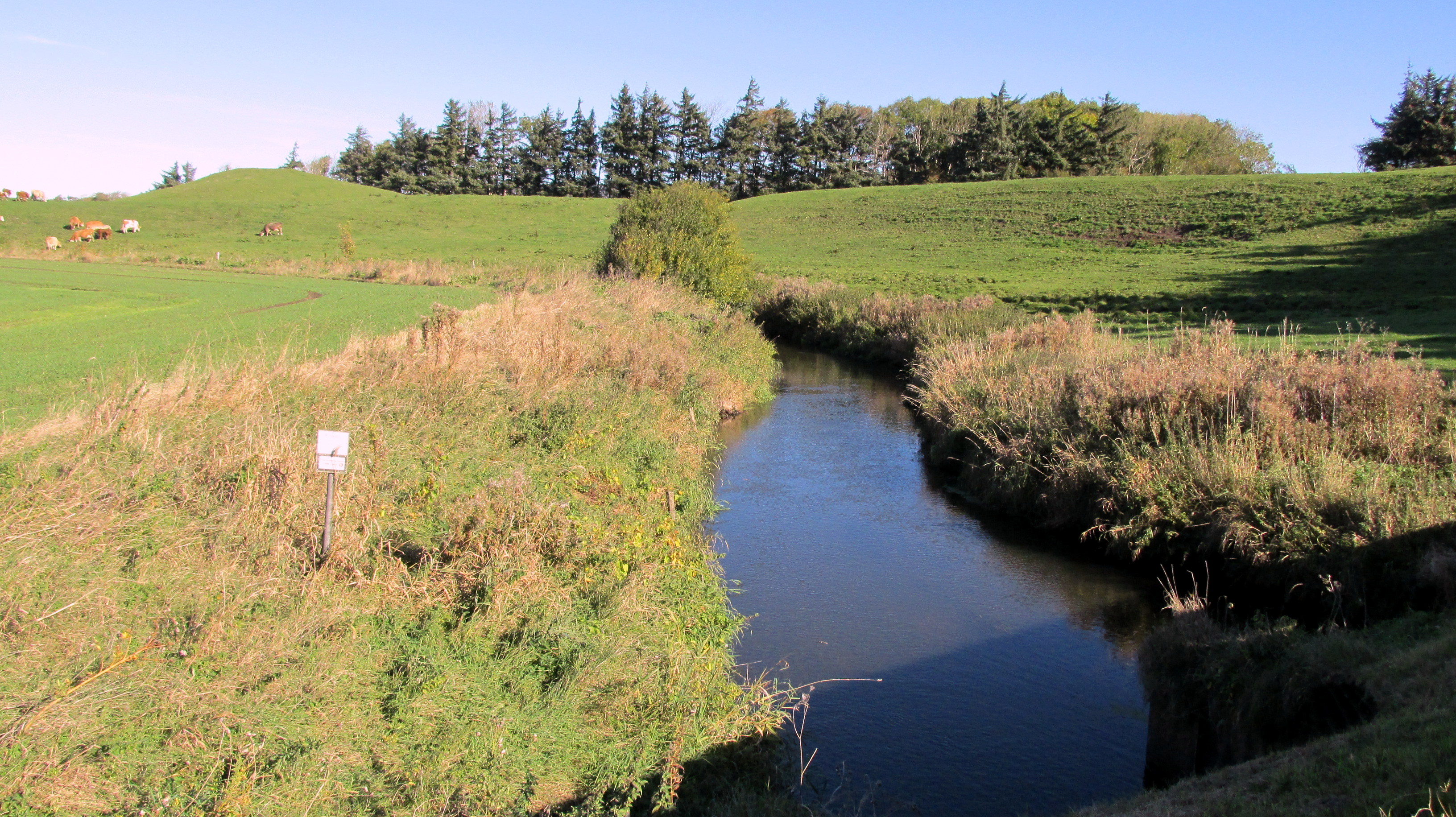 Åstrup Møllebæk, a stream in northern Denmark